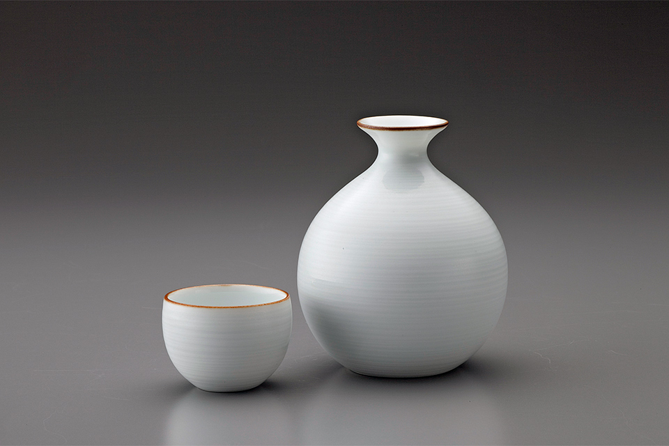 White Strings Ware Round Sake Set (1977), Masahiro Mori (ceramic designer) designed